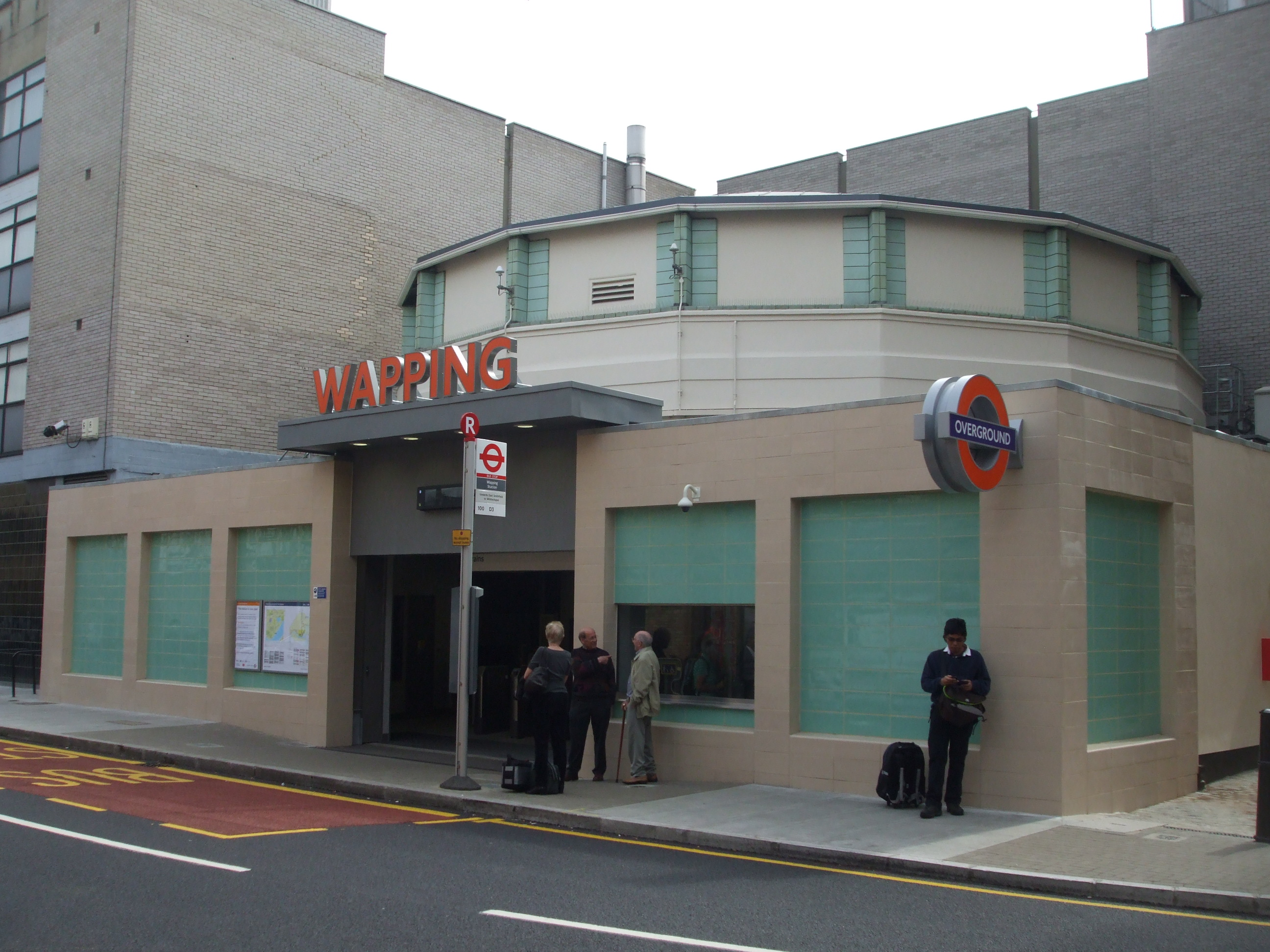 Wapping station a day after re-opening on 27 April 2010.